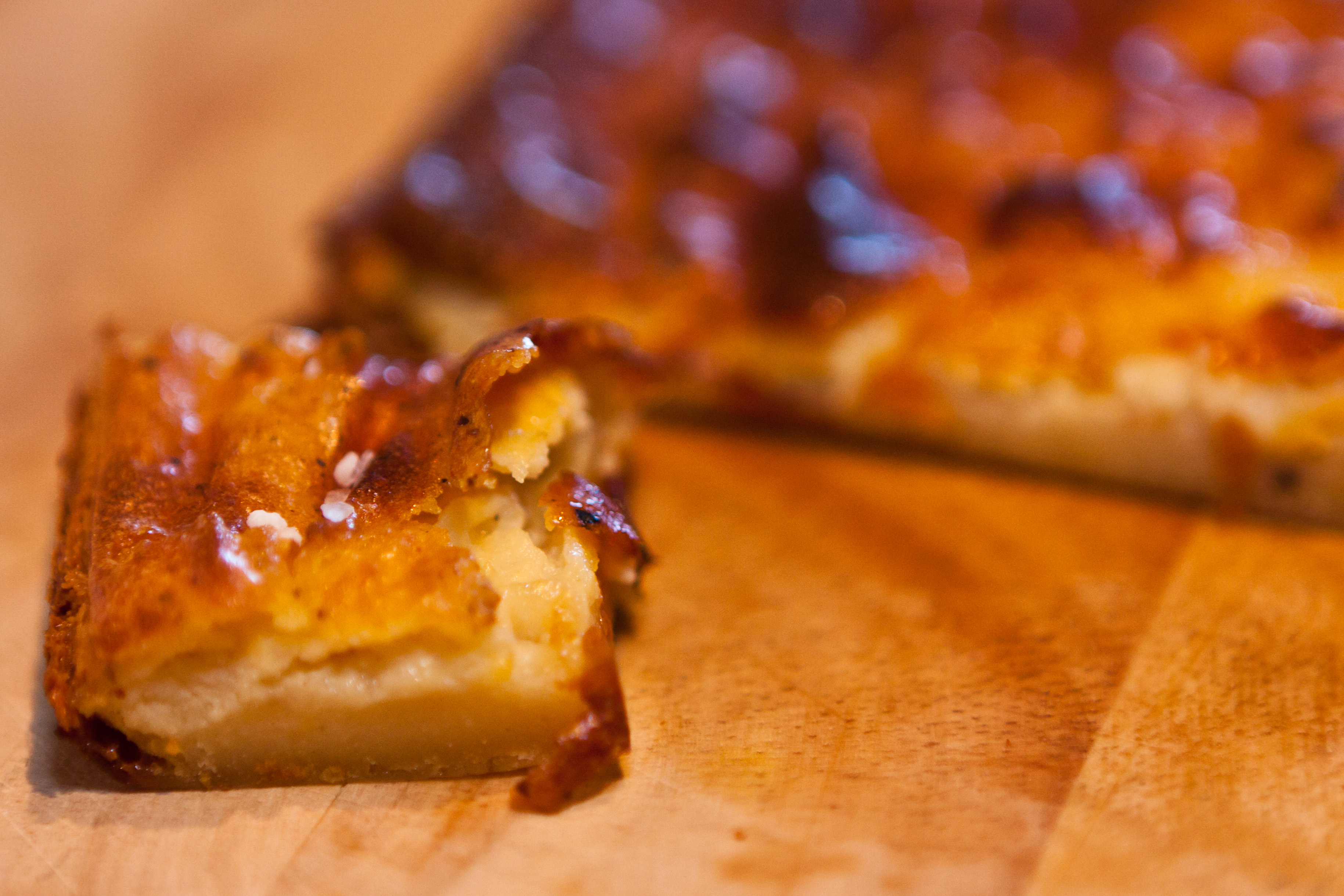 Calentita cooked in Gibraltar with milk and egg instead of water.